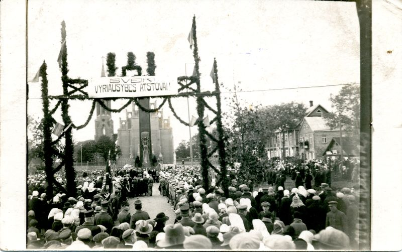 Unveiling ceremony of the Monument of 10th anniversary of Independence of Lithuania in Rokiškis, Lithuania, in 1931. The monument was funded by the inhabitants of Rokiškis and the collection of funds took three years due to the economic crysis. The monument was expensive and totally costed 30,000 Lithuanian litas. Text above the gates "SVEIKI VYRIAUSYBĖS ATSTOVAI" translates to "WELCOME GOVERNMENT REPRESENTATIVES" and the symbol behind it are the Columns of Gediminas.